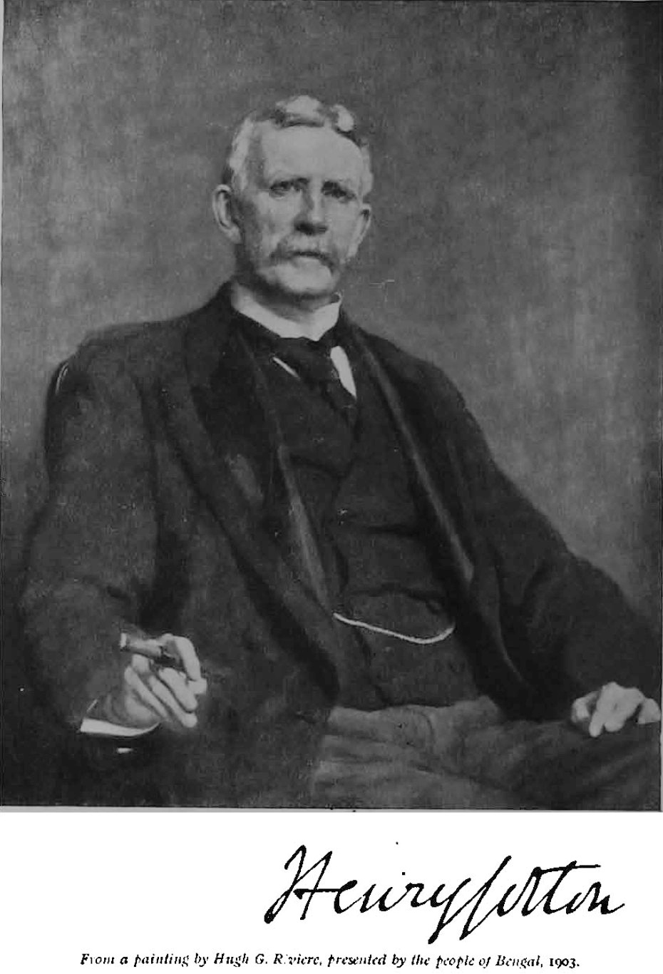 Sir Henry John Stedman Cotton, KCSI (13 September 1845 – 22 October 1915)